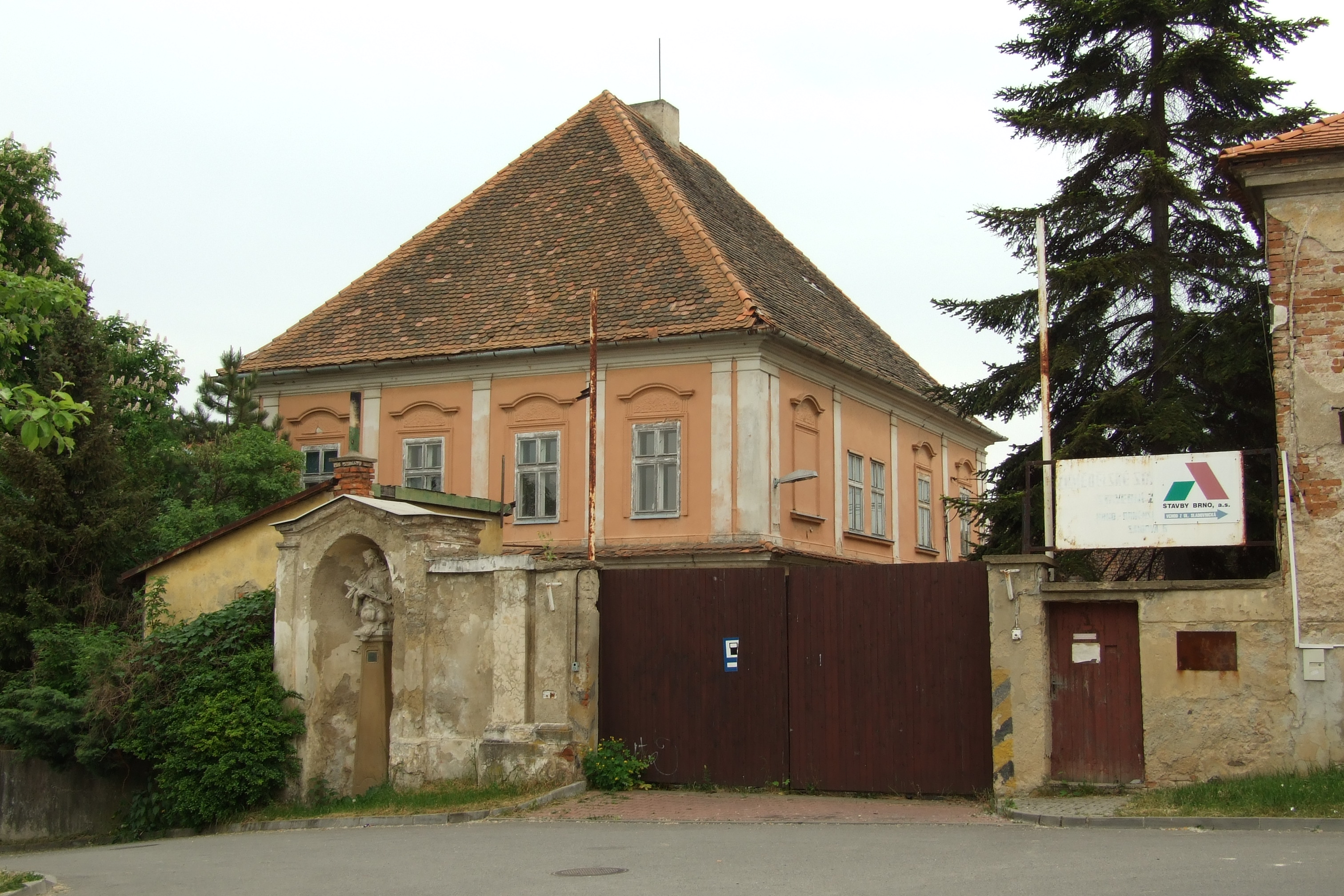 Castle in Brněnské Ivanovice